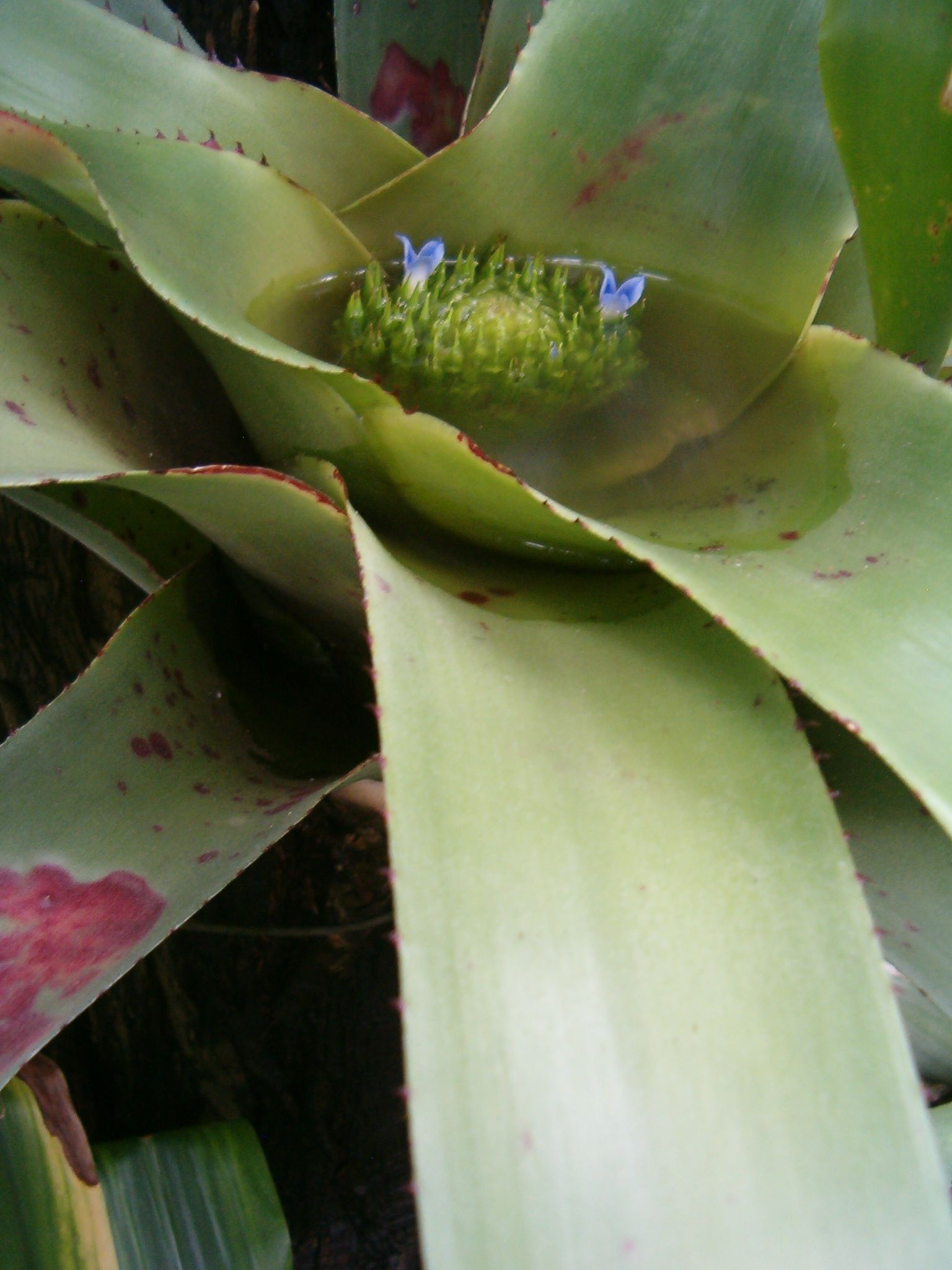 Species Neoregelia cruenta Neoregelia crenta Habitus and Inflorescences in the Botanical Gardens Berlin Dahlem